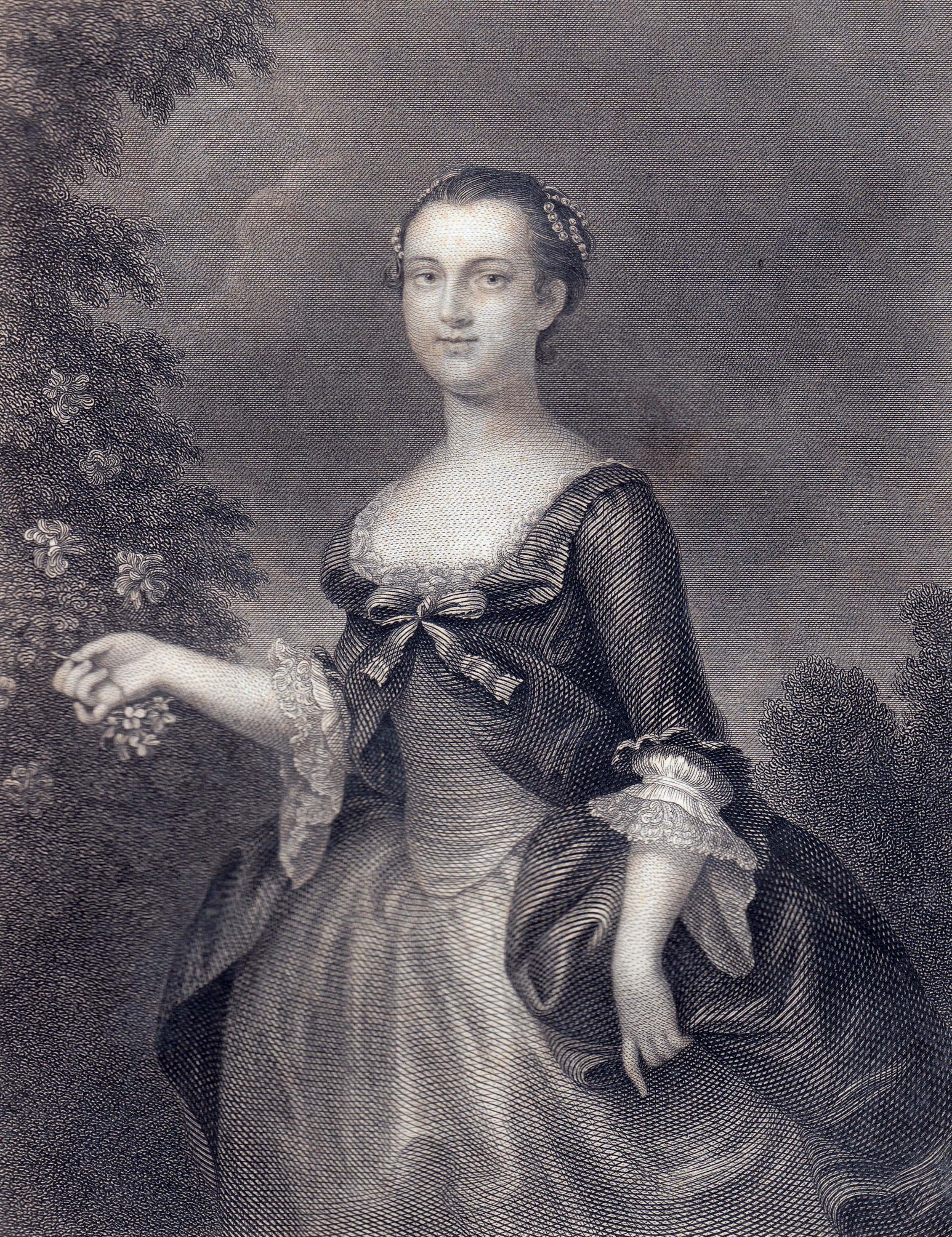 Martha Custis Washington as a young woman (Steel engraving)